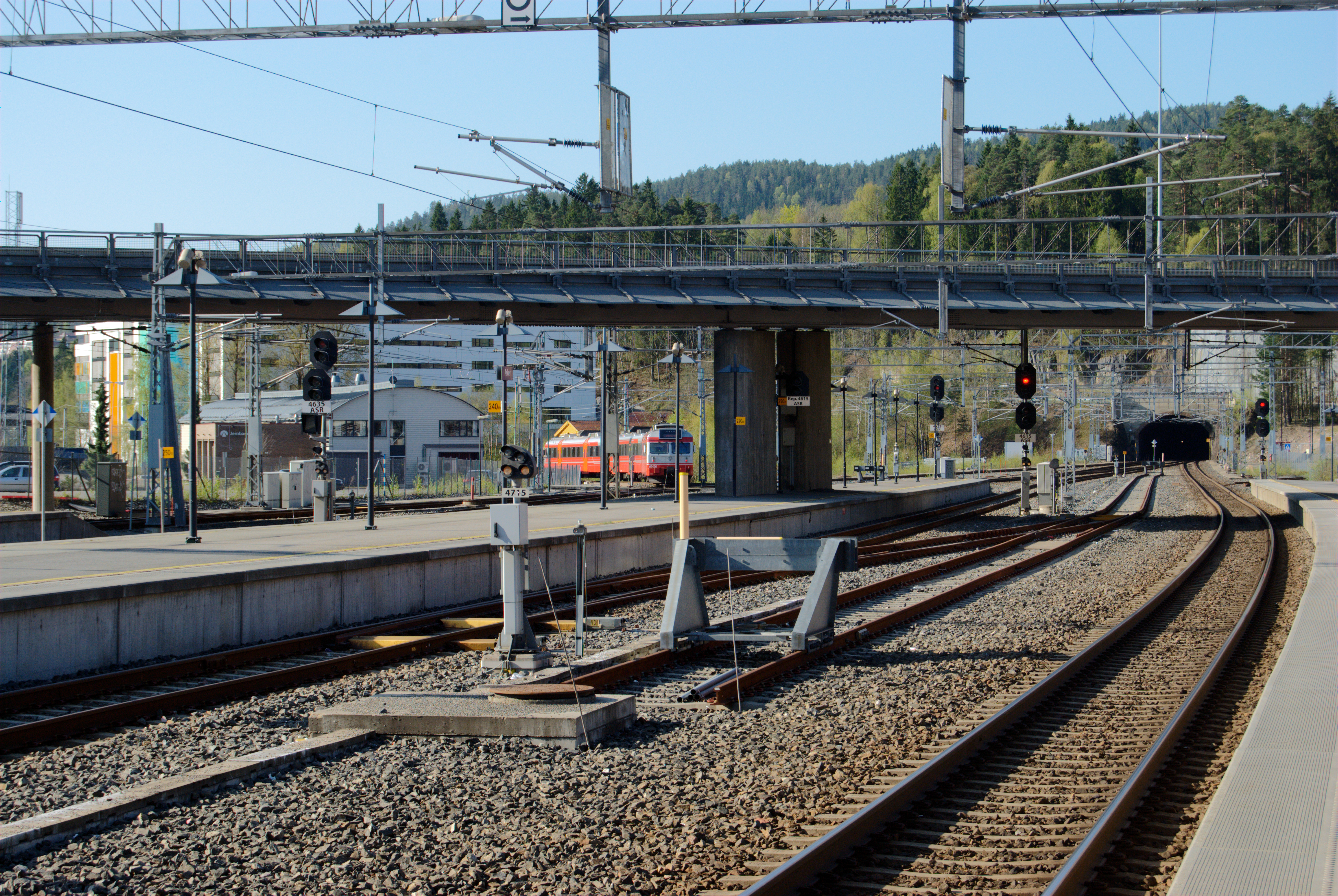 Asker Station: to the right the Lieråsen Tunnel and to the left a Class 69 train leaving on the Spikkestad Line.